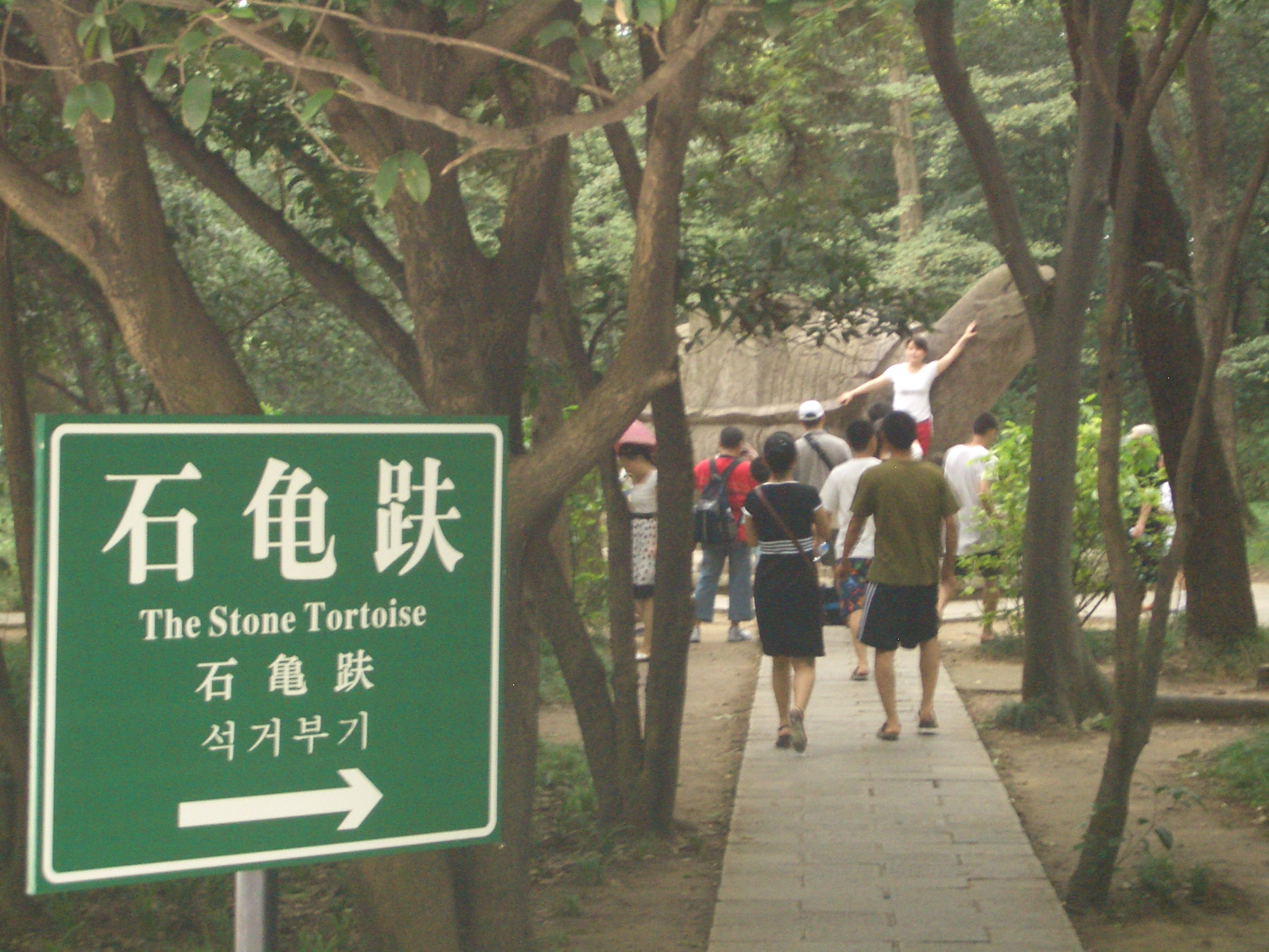 The Stone Tortoise in the woods near the Linggu Temple in Wuhan's Linggu Scenice Area. According to the plaque by its side, its story is not known, but it is thought to be associated with the Ming-Dynasty Linggu Temple. Although it (presently) carries no stele (as most of such bixi tortoises do), it looks very similar to the stele-carrying 'bixi in Nanjing's Drum Tower